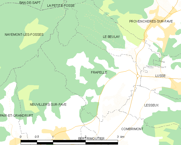 Map of French municipality Frapelle